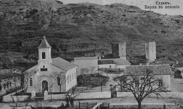 German Lutheran Church Sudak